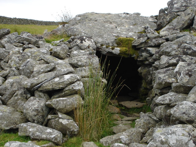 Burial Chamber The remains at Carneddau Hengwm are very impressive and atmospheric, so this picture of one of the chambers with its huge capstone is merely a taster.